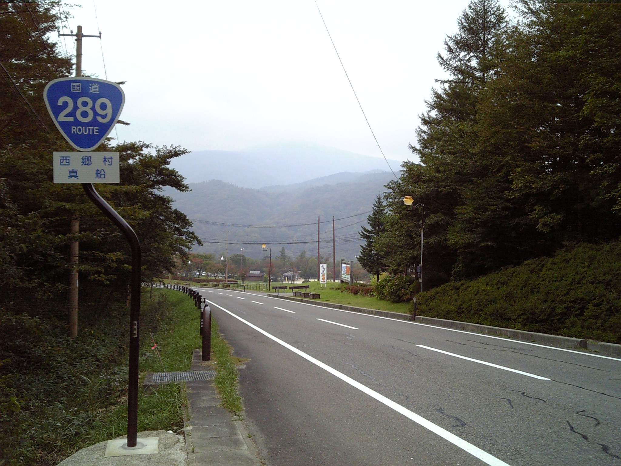 Nishigou village in Fukushima Prefecture Route 289 (road Kashi)